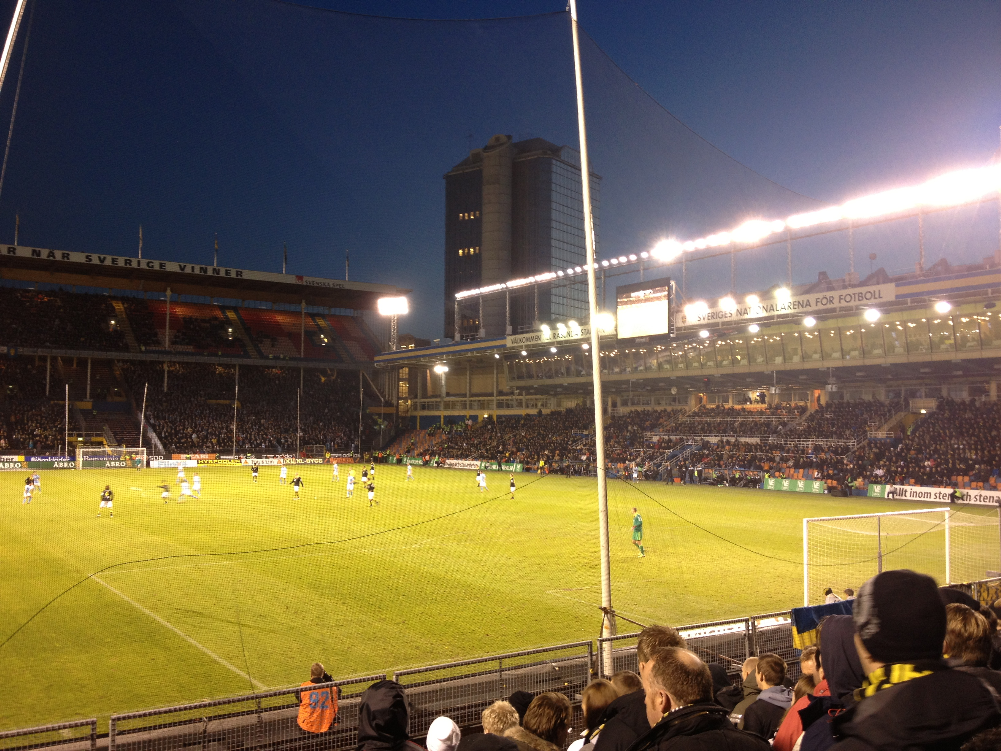 A shot caught at Råsundastadion during AIK vs. Malmö FF (2-0) in Fotbollsallsvenskan